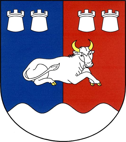 Municipal coat of arms of Hovězí village, Vsetín District, Czech Republic.